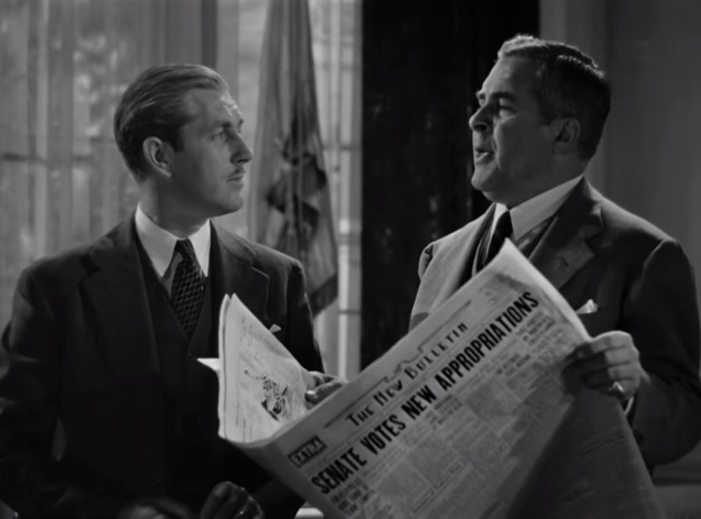 John Hamilton (left) in Meet John Doe - cropped screenshot